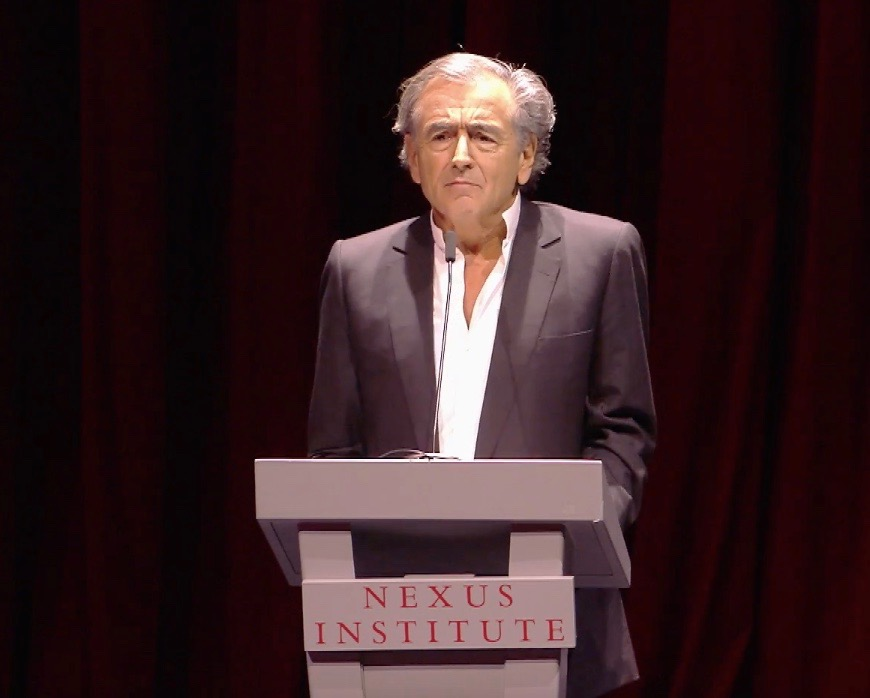 Bernard Henri Lévy is a french philosopher